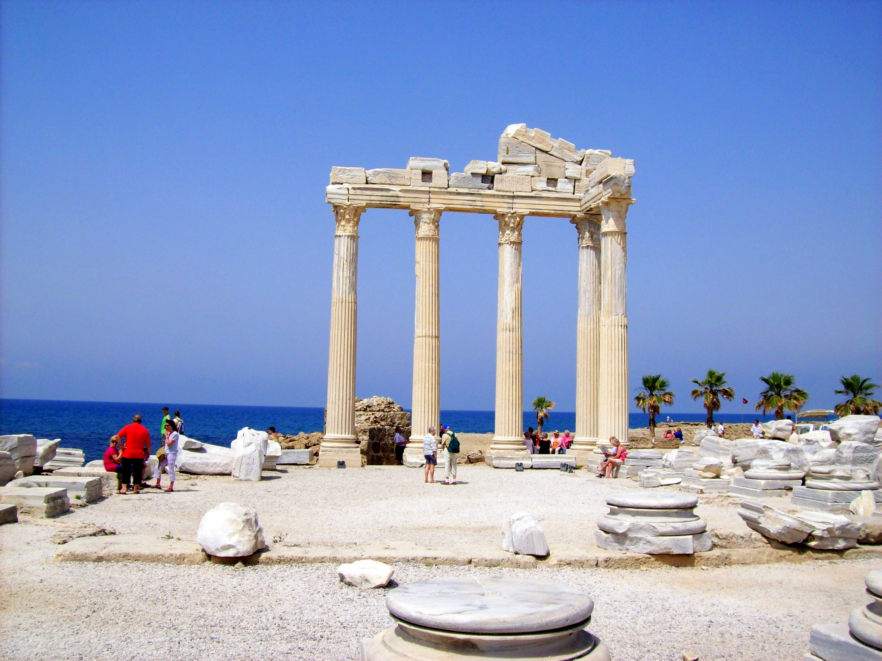 The Temple of Apollo in Side, Turkey.